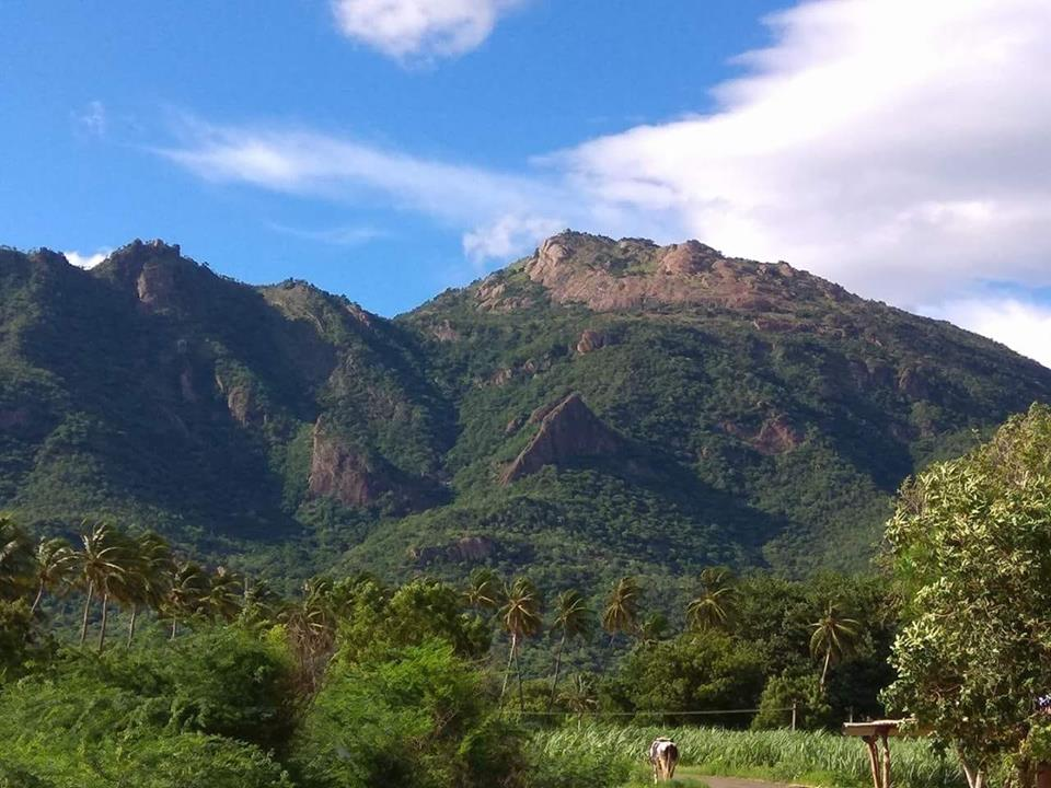 Elumalai (Seven Hills) is Surrounding by Hills.